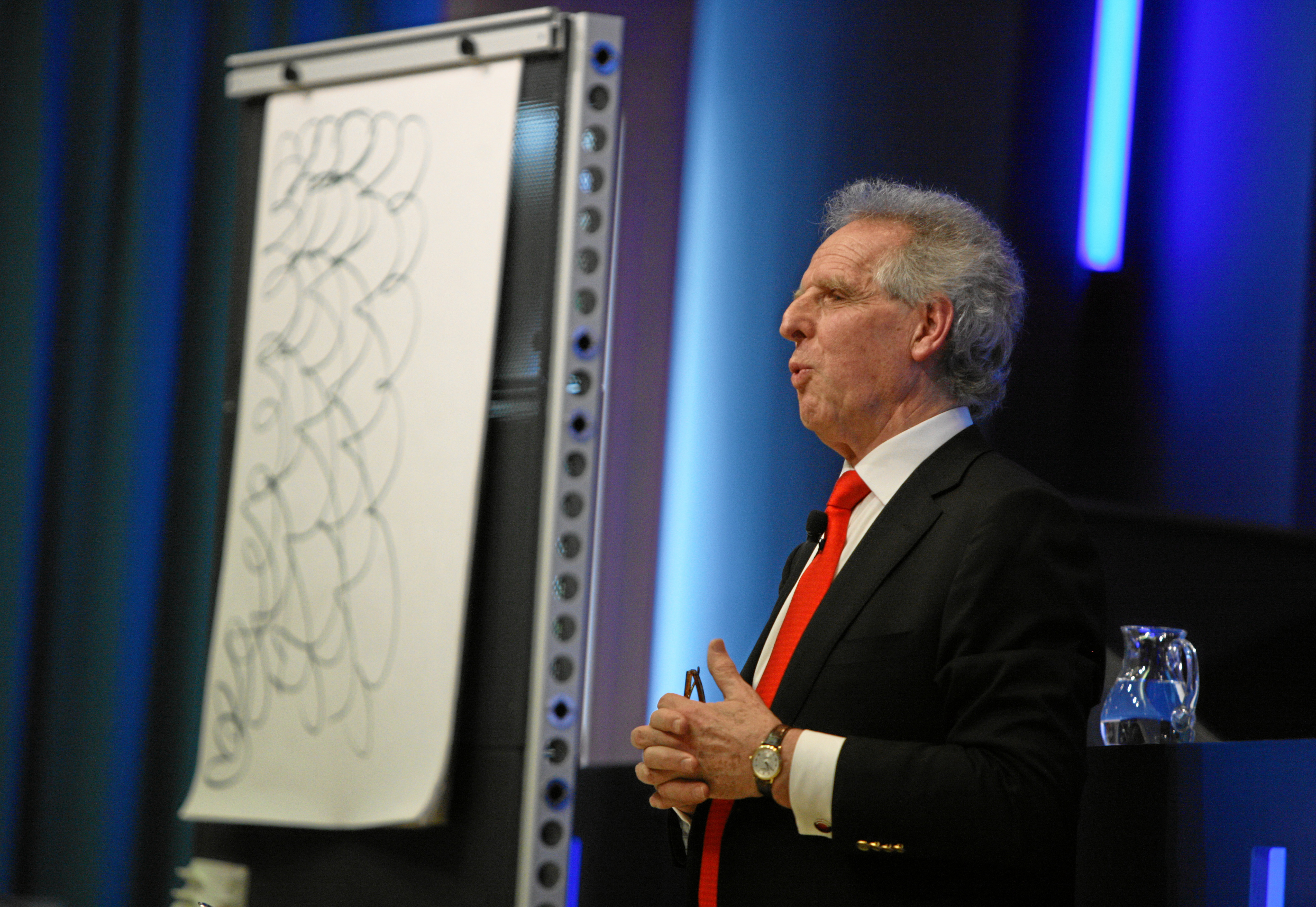 DAVOS-KLOSTERS/SWITZERLAND, 28JAN09 - Benjamin Zander, Conductor, Boston Philharmonic Orchestra, USA, captured during the session 'Managing Complexity: A Different Approach' at the Annual Meeting 2009 of the World Economic Forum in Davos, Switzerland, January 28, 2009.